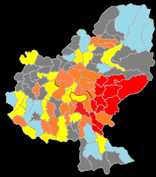 Hungarian minority in Mureș County (Romania), according to the 2011 census, by communes (red = hungarian majority over 80%, orange = hungarian majority between 50 - 70%, yellow = hungarian minority over 20%, blue = hungarian minority between 10 - 20%, grey = hungarian minority under 10%).